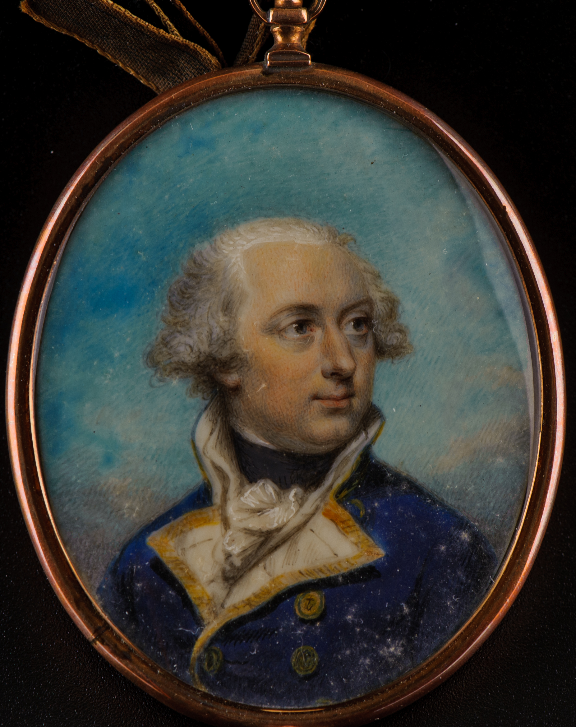 Capt Sir Charles Henry Knowles in command of a frigate